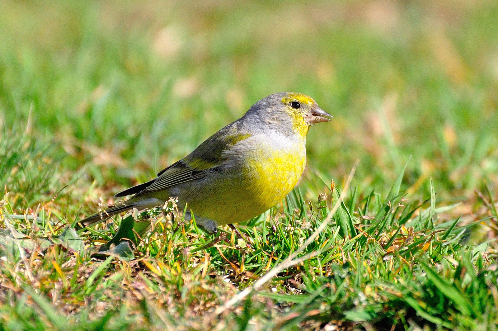 A Citril Finch at Plateau de Beille, Ariege, Midi-Pyrenee, France.